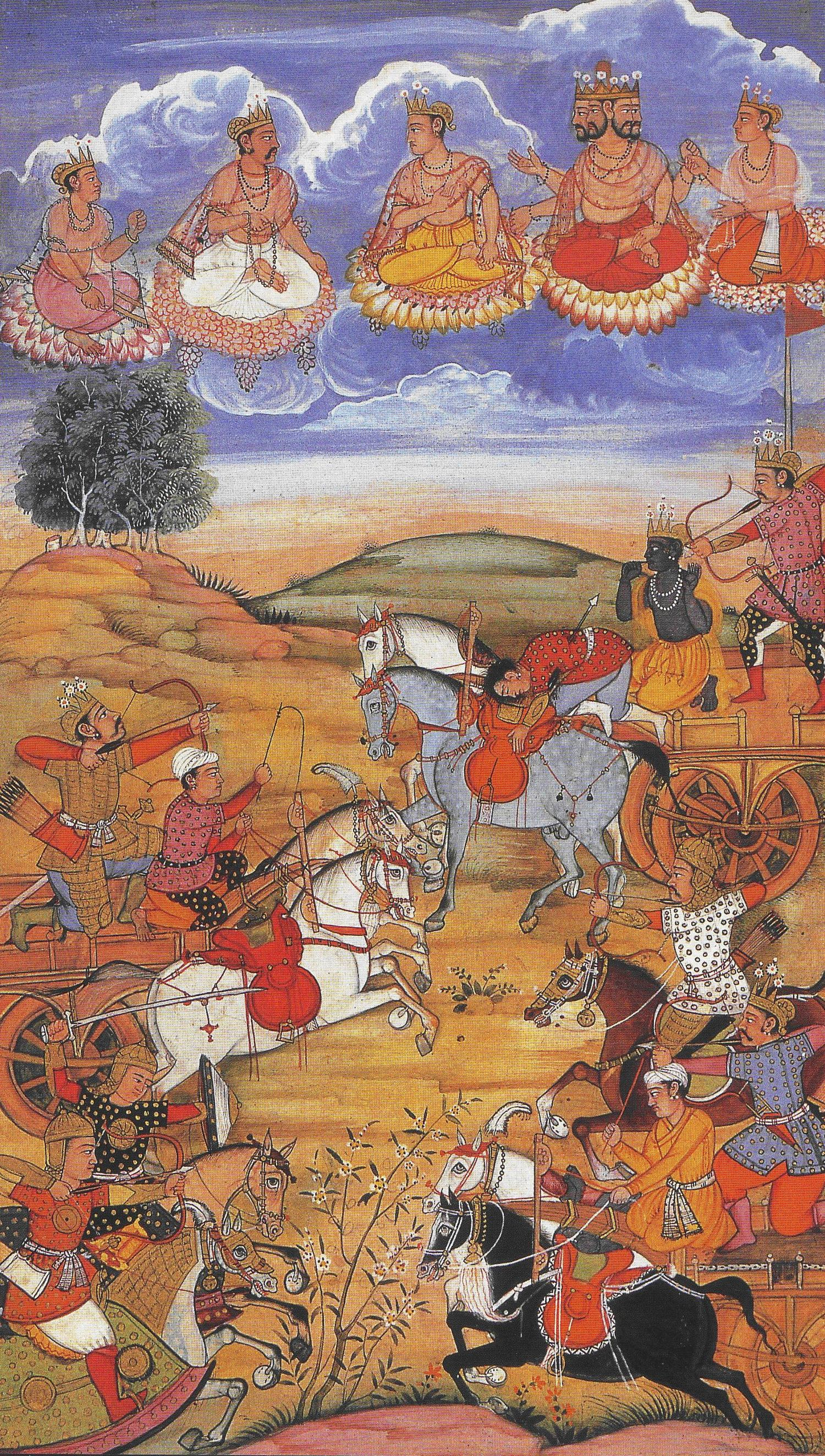 In this spirited 16th-century painting illustrating a battle scene in the Bhagavad Gita, the gods look down on the mortal hero Arjuna (far right), who is directed and assisted by his personal charioteer (and God incarnate), Krishna (second from right), during the climactic engagement with the Kauravas at Kurukshetra. Krishna fortifies the will of the wavering Arjuna, convincing him at his moment of moral crisis that it is his duty to proceed and to fight for what is right.